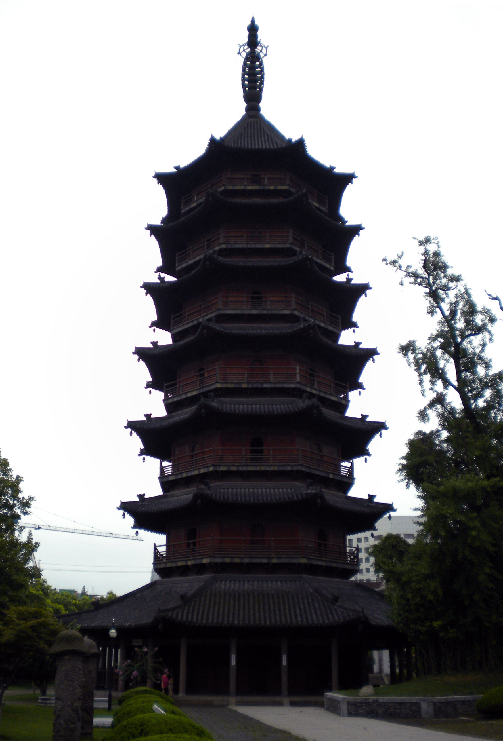 Feiying Pagoda in Huzhou